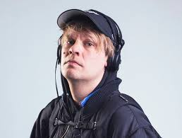 Artist and radio host Miikka Koivisto promotional picture